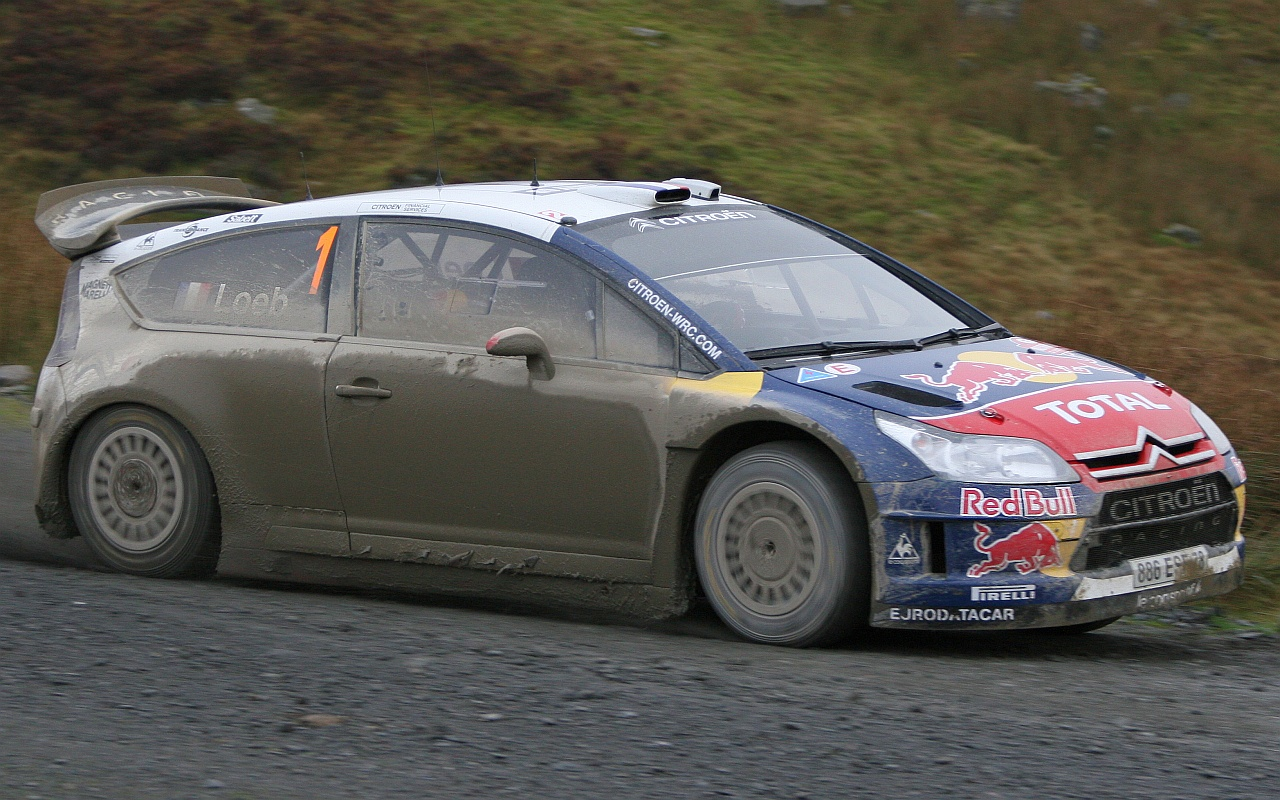 Sebastian Loeb - Citroen C4 WRC on Wales Rally GB 2009